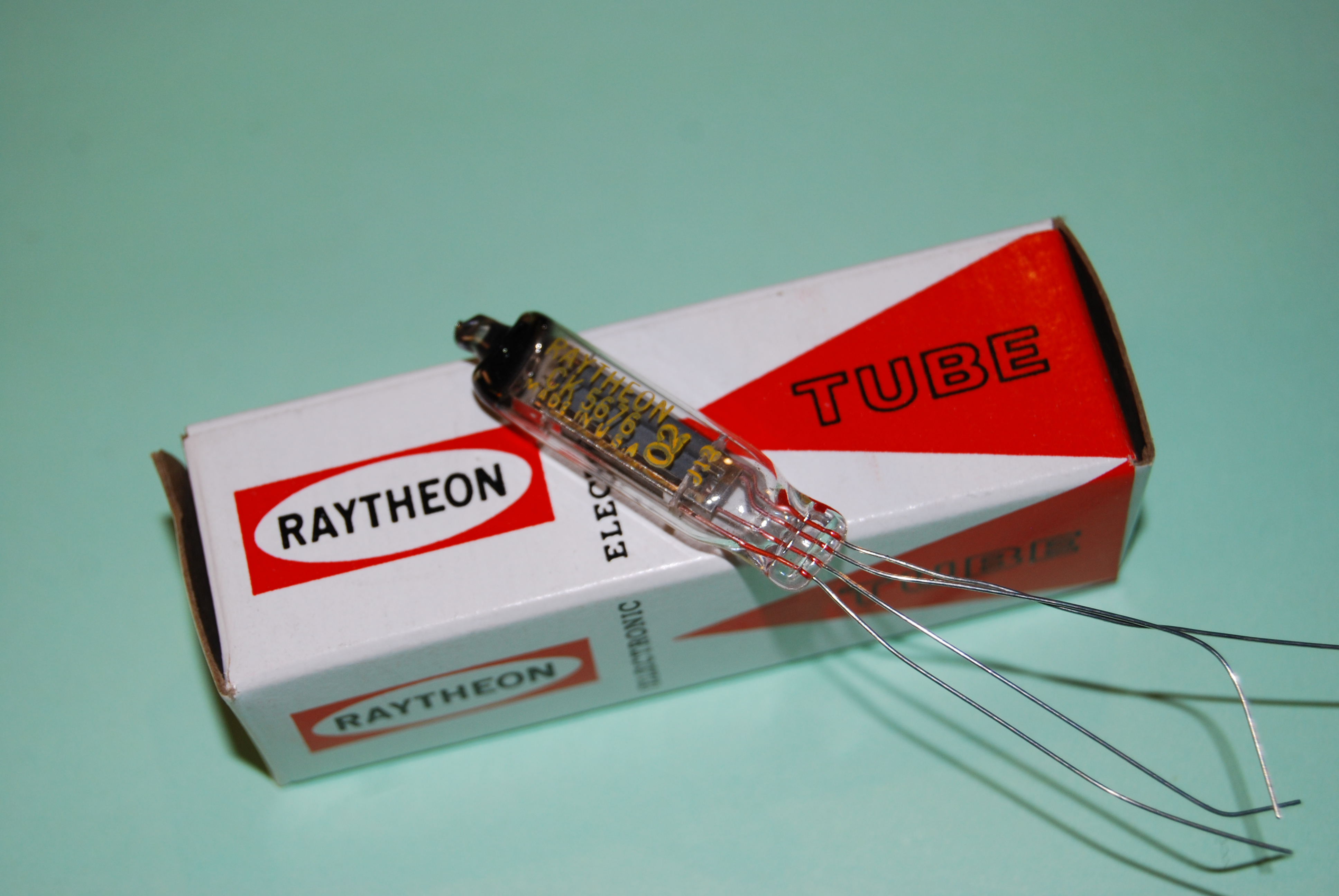 Norman Krim Success at Raytheon in the 1940's brought the Proximity Fuse for wartime and the Portable Hearing Aid in Peacetime.